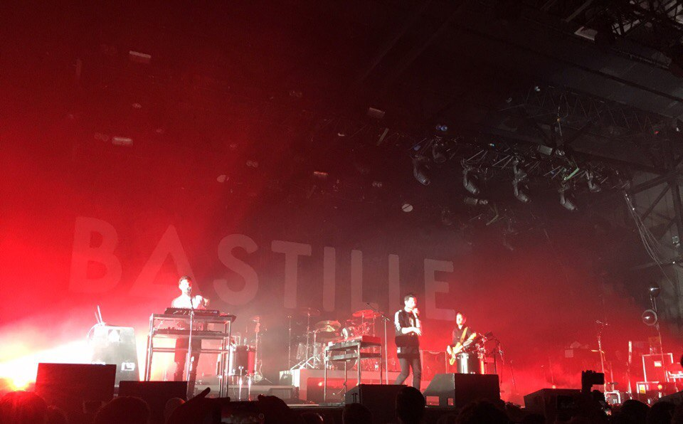 Bastille performing at A2 Green concert club in St. Petersburg, Russia during their "Wild, Wild World Tour", 2017